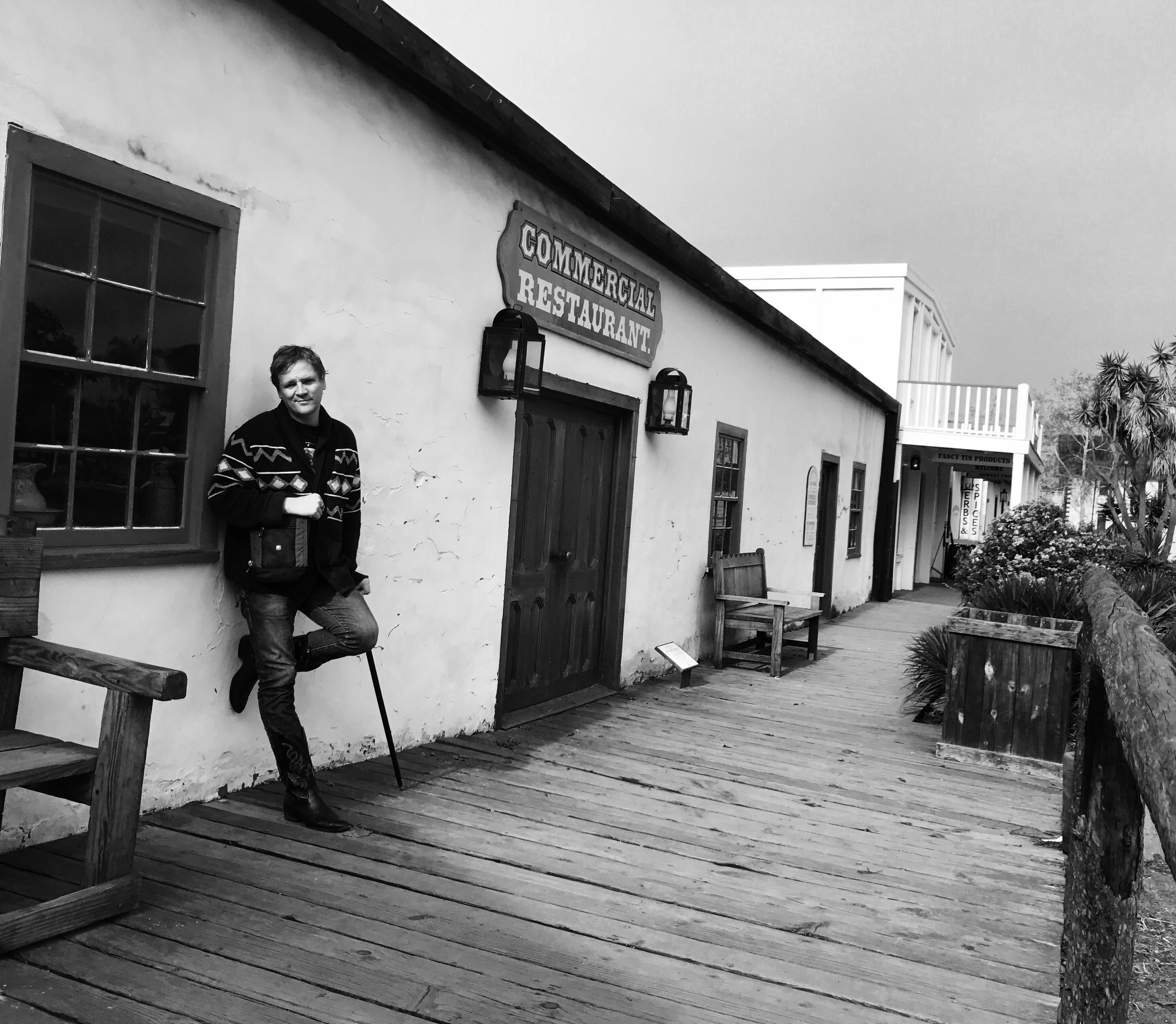 Author and illustrator Lorin Morgan-Richards in Old Town San Diego